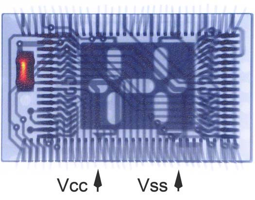 3D SQUID overlaid XRay